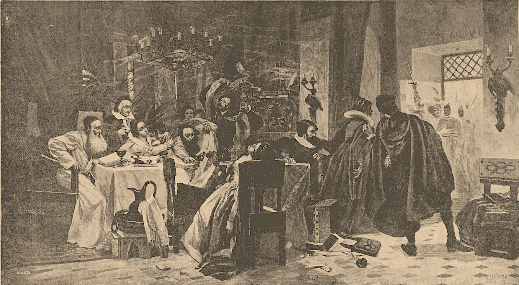 Illustration from Brockhaus and Efron Jewish Encyclopedia (1906—1913)